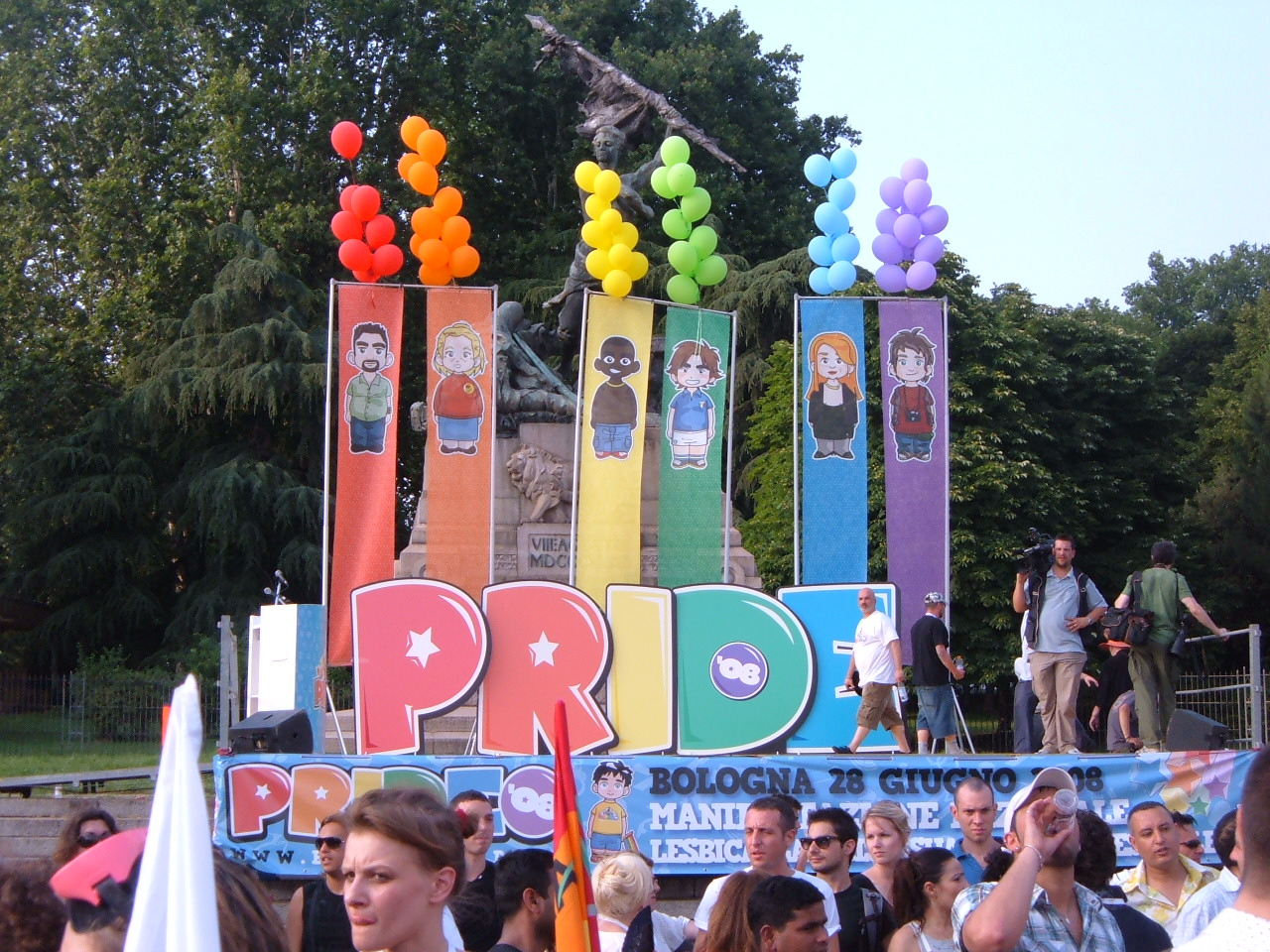 Stage in Piazza VIII Agosto, the ending square of the Bologna Pride Parade (Italian National Gay Pride 2008)-28th Jun 2008